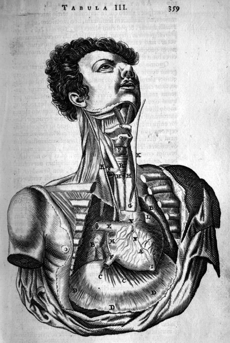 Thomas Bartholin (1616-1680): Anatome ex omnium veterum recentiorumque observationibus, 1673.